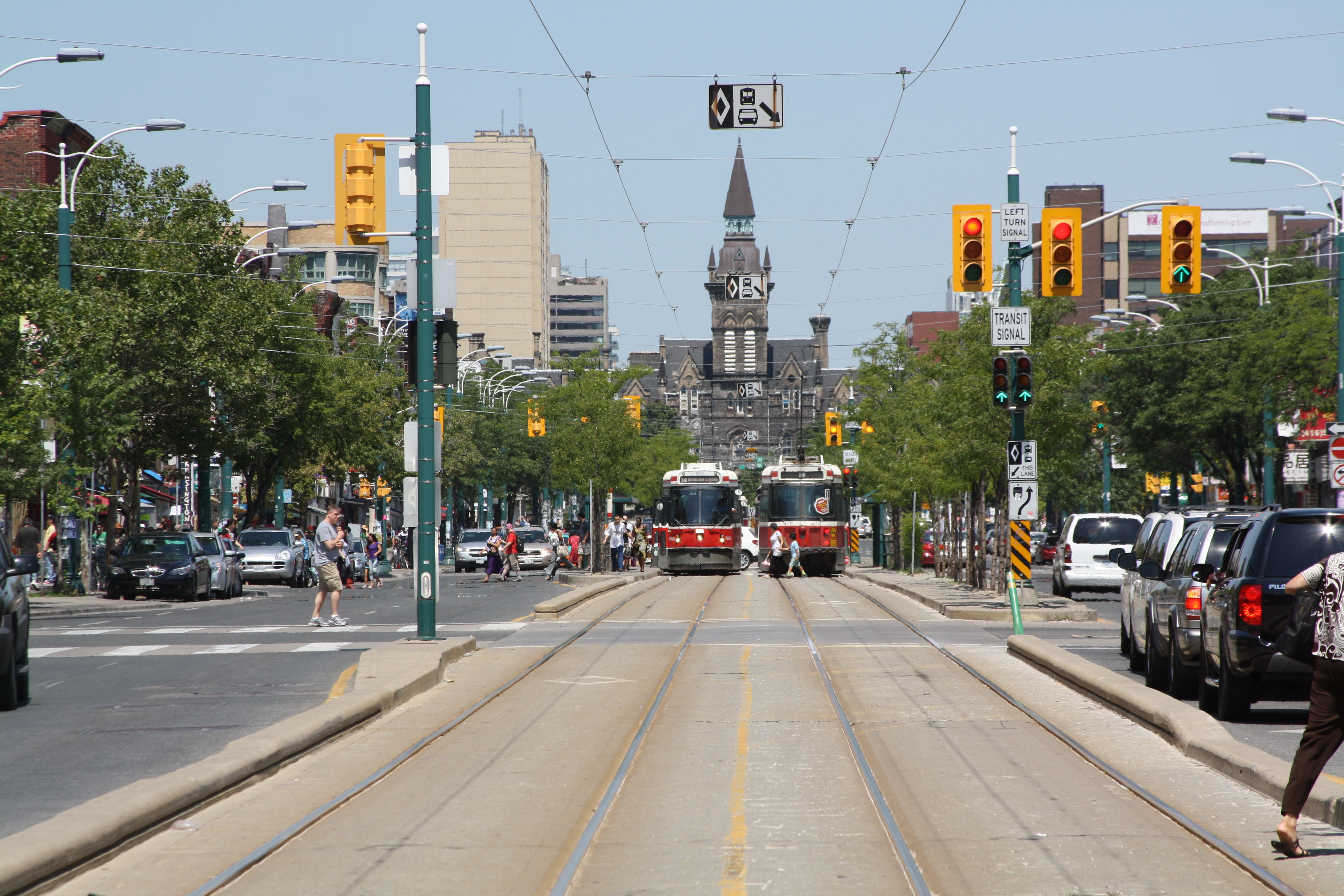 Northbound and southbound streetcars meet on the Spadina line, south of College. Original caption: Coming and Going